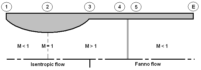 this is a diagram to be used for the Fanno flow article to explain flow through a nozzle into a constant area duct.